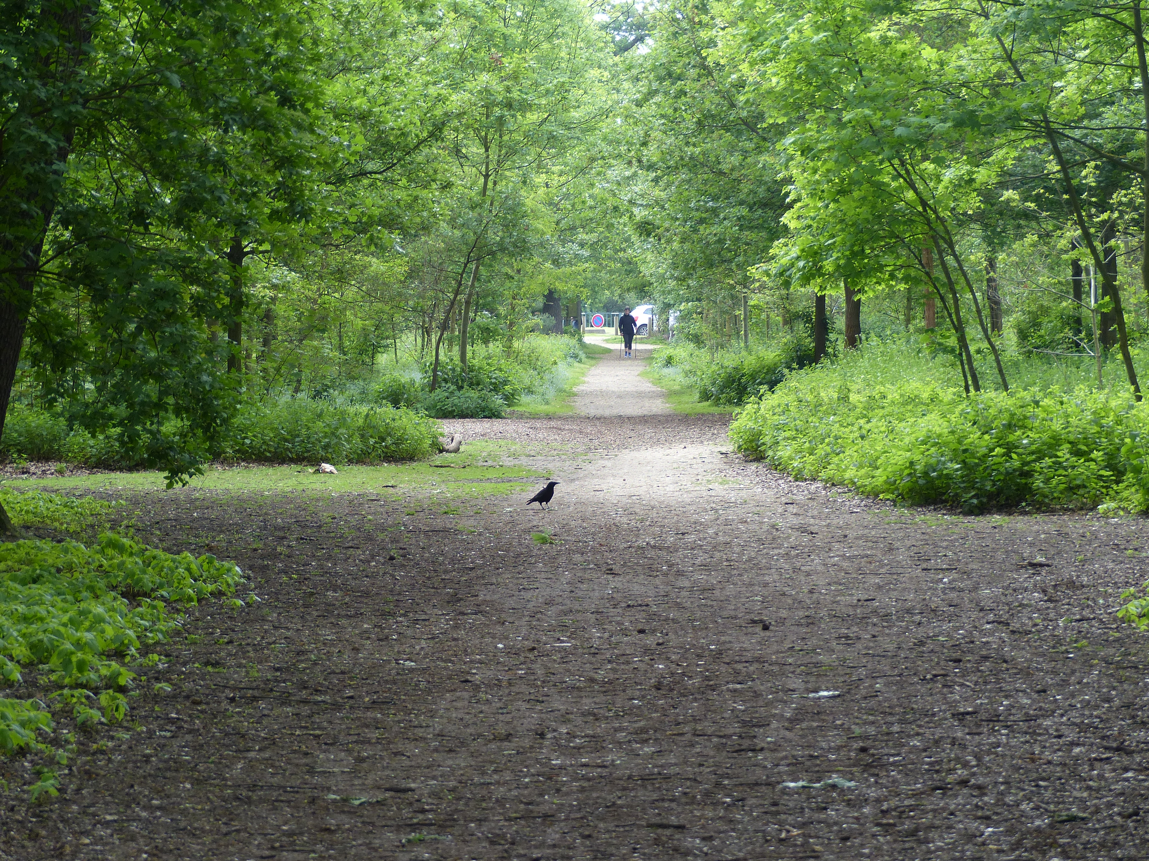 Bois de Boulogne. Paris, France. Taken on the 15th of May, 2016. Handicap International – Courier Ensemble.